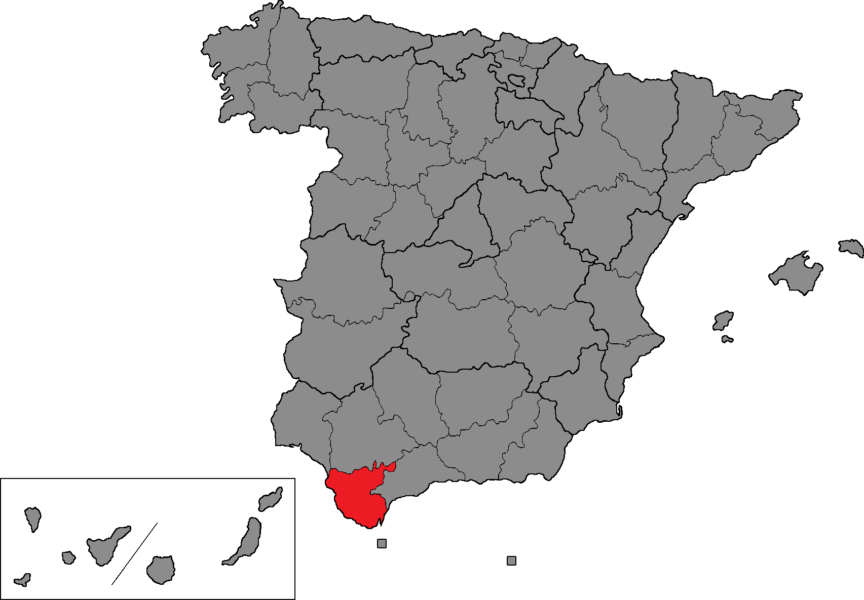 Spanish Congress of Deputies district of Cádiz.